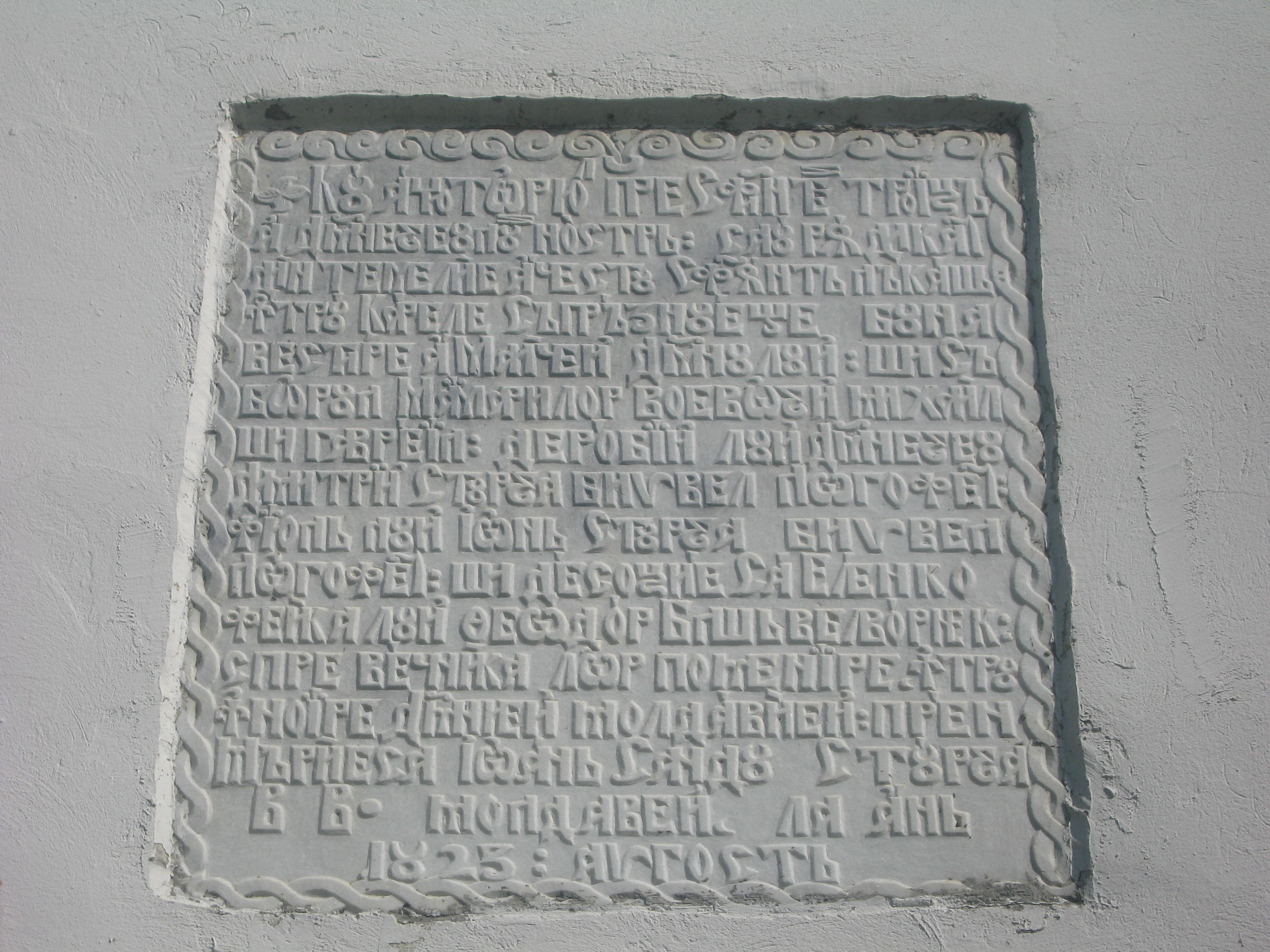 Miclăuşeni Monastery